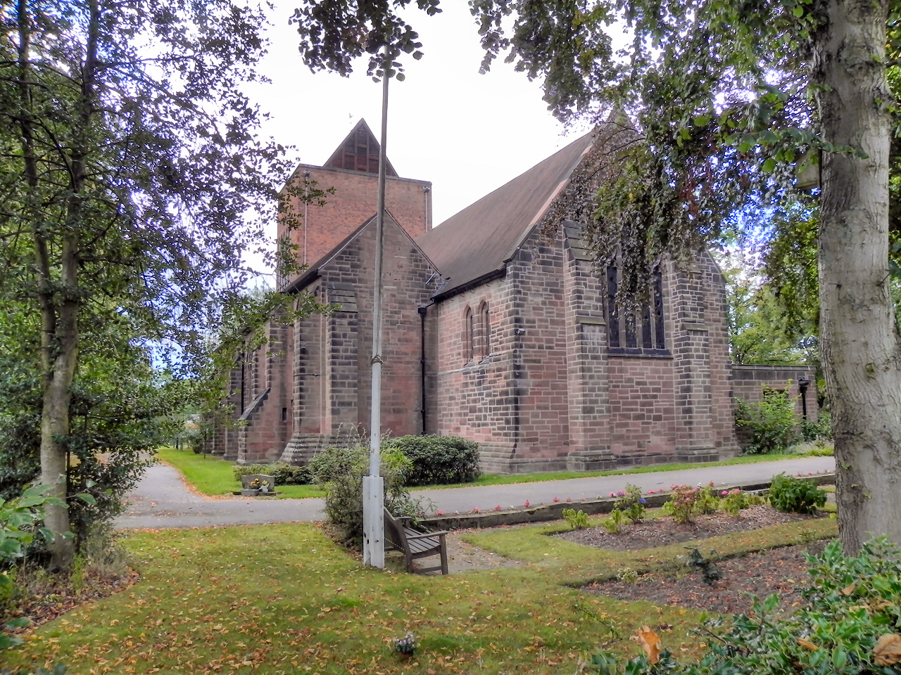 Photograph of St Michael's Church, Bramhall, Greater Manchester